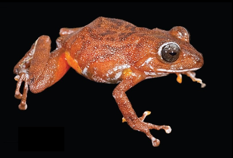 Pristimantis jamescameroni female